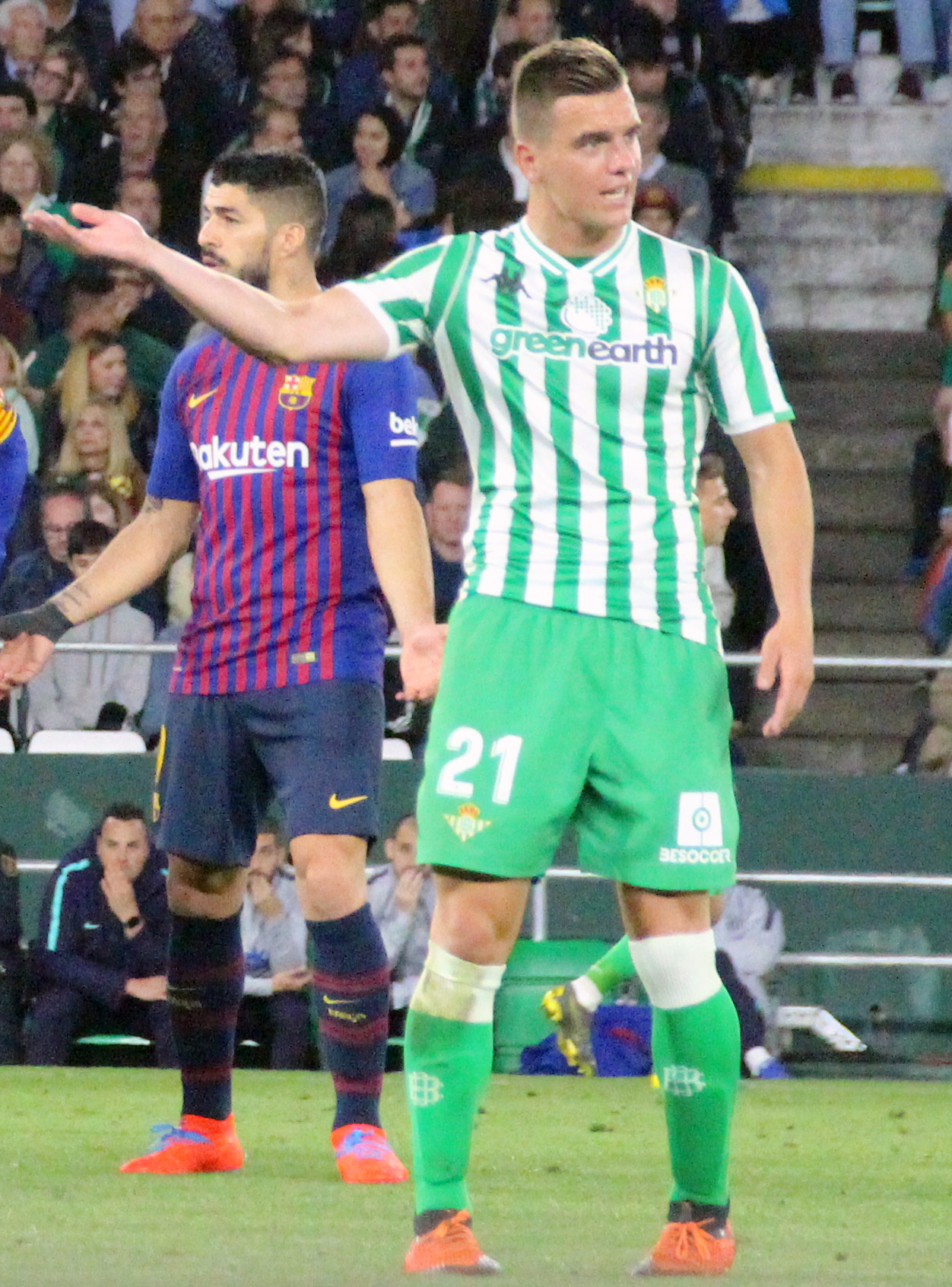 Giovanni Lo Celso playing for Real Betis vs FC Barcelona, 17/03/2019